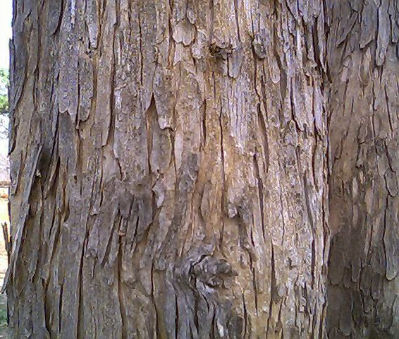 Bark of Lagerstromea parviflora tree ocurring in Southern Tropical dry Deciduous Forests in Maharashtra, India